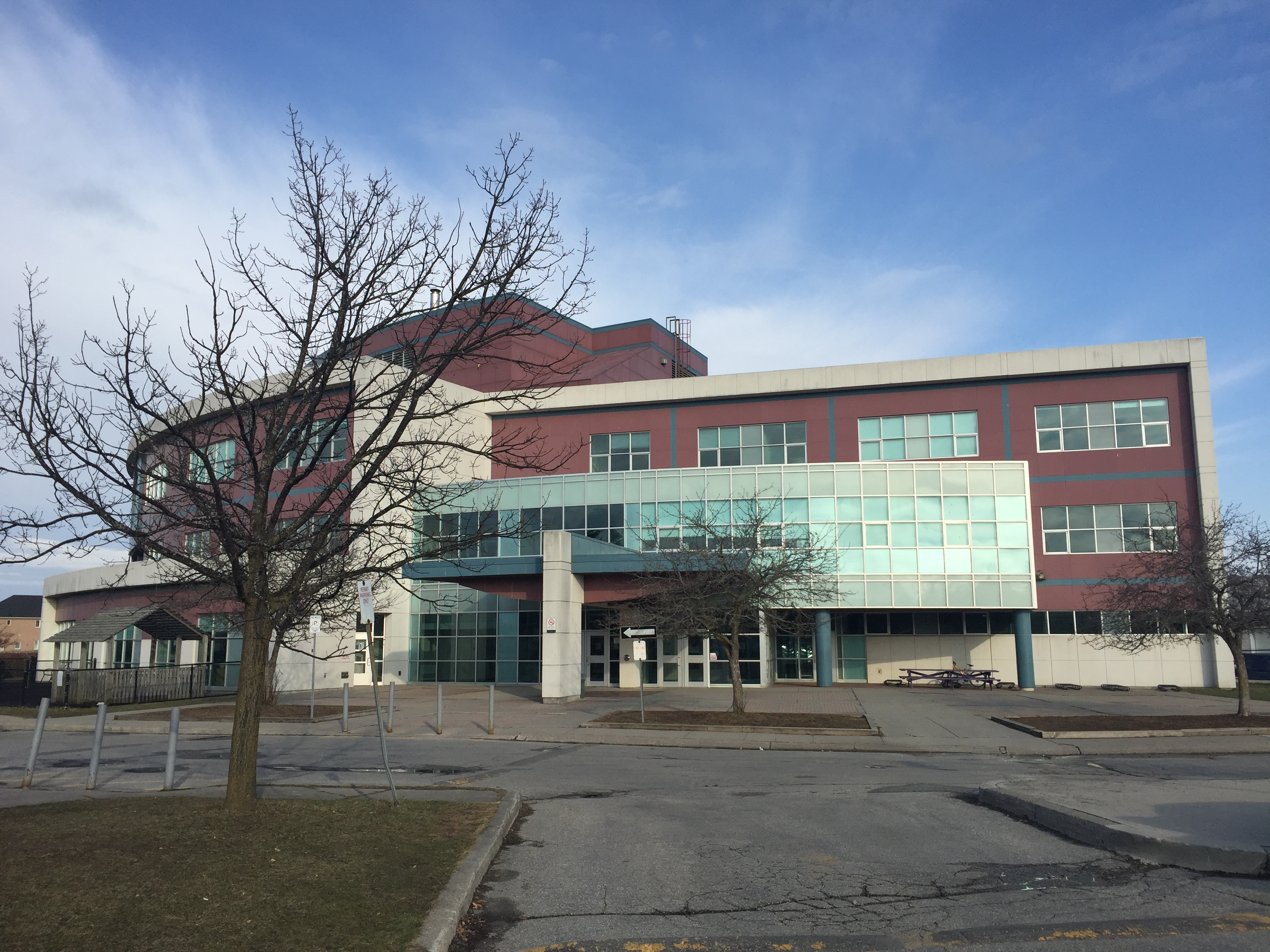 The Middlefield Collegiate Institute in Markham, Ontario.